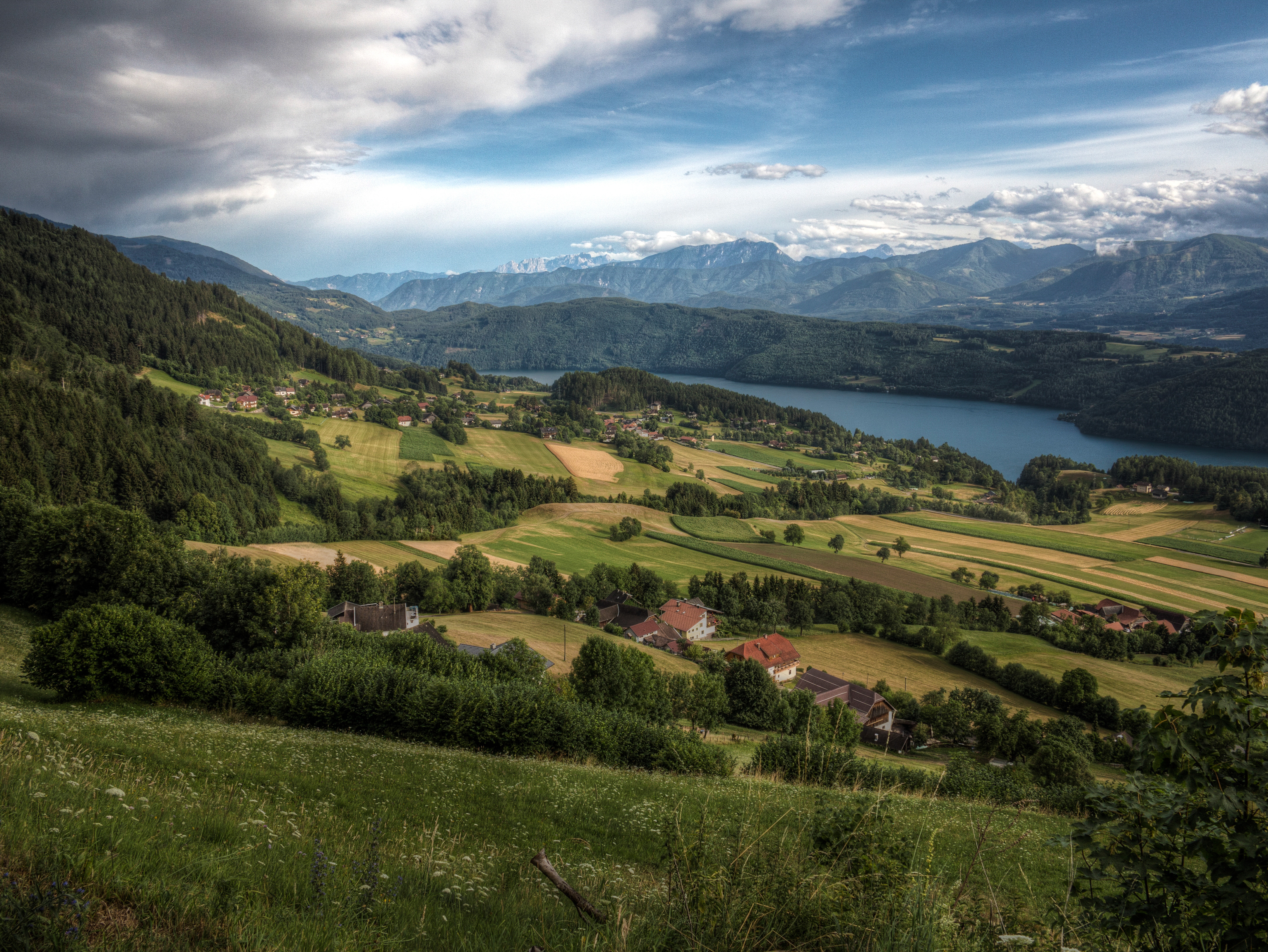 In the foreground, a few houses from Obermillstatt near Lake Millstatt (Millstätter See), district Spittal an der Drau in Carinthia / Austria / EU. Behind the western view of Grantsch and Lammersdorf. In the background of the Lake Millstatt. Behind the slightly higher peak is the Dobratsch Dobratsch in the Gail Valley Alps and because of the good distance vision, even the Julian Alps to the right of Dobratsch left of the Karawanken are visible in more than 80 km away. Summer Evening, after a thunderstorm. The clouds pile up right in front of the Alpe Millstaetter.